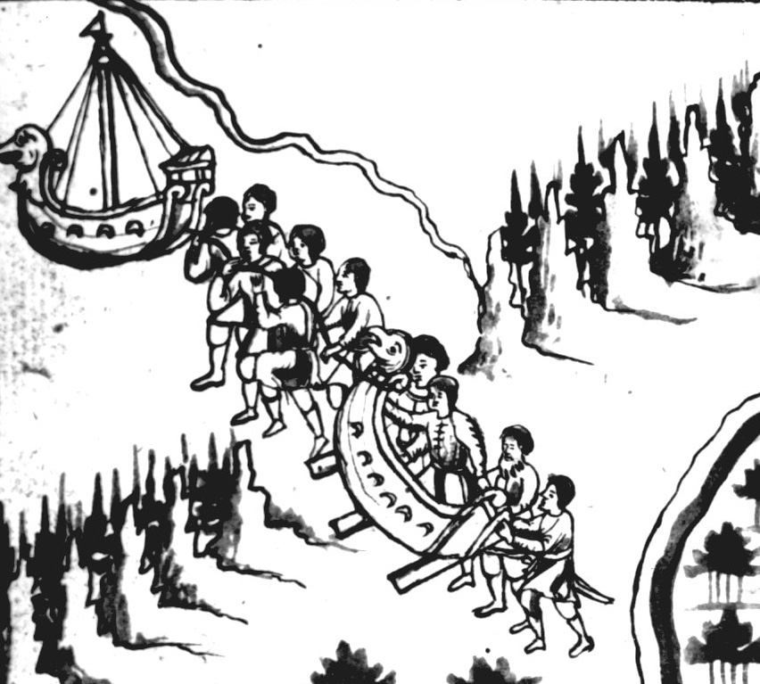 Yermak Timeofeyevich and his band of adventurers cross the Ural Mountains over the Tagil Portage